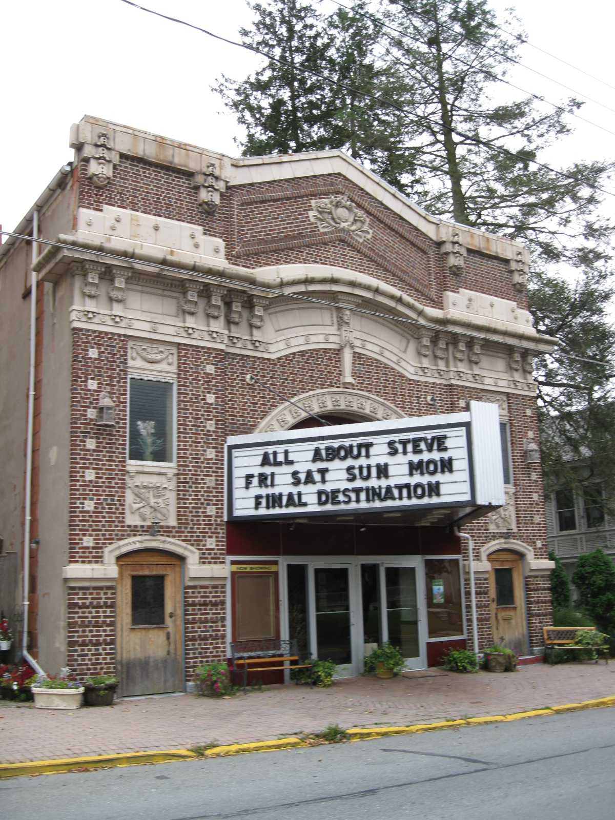 "All About Steve", Pine Grove Theatre, Pine Grove, Pennsylvania